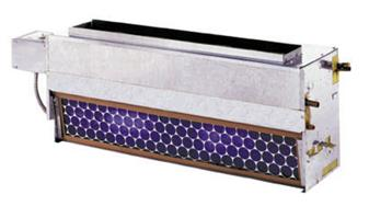 Vertical Fan Coil